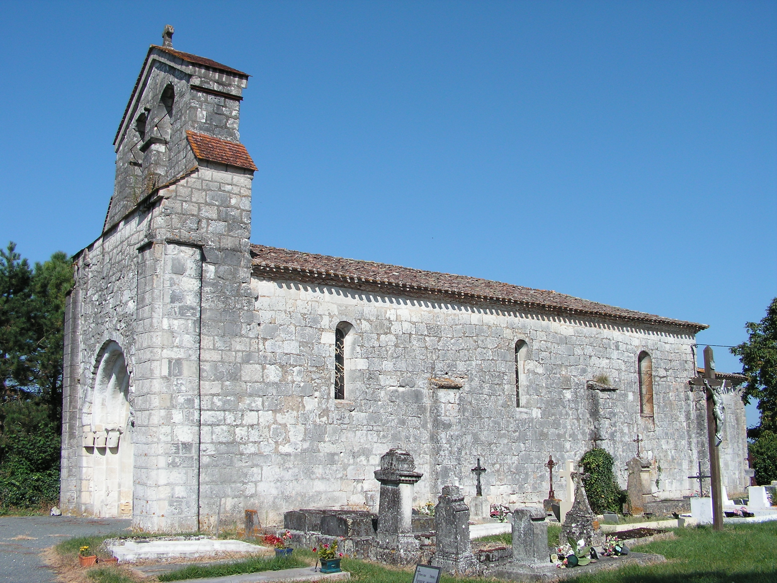 Nastringues (Dordorgne)